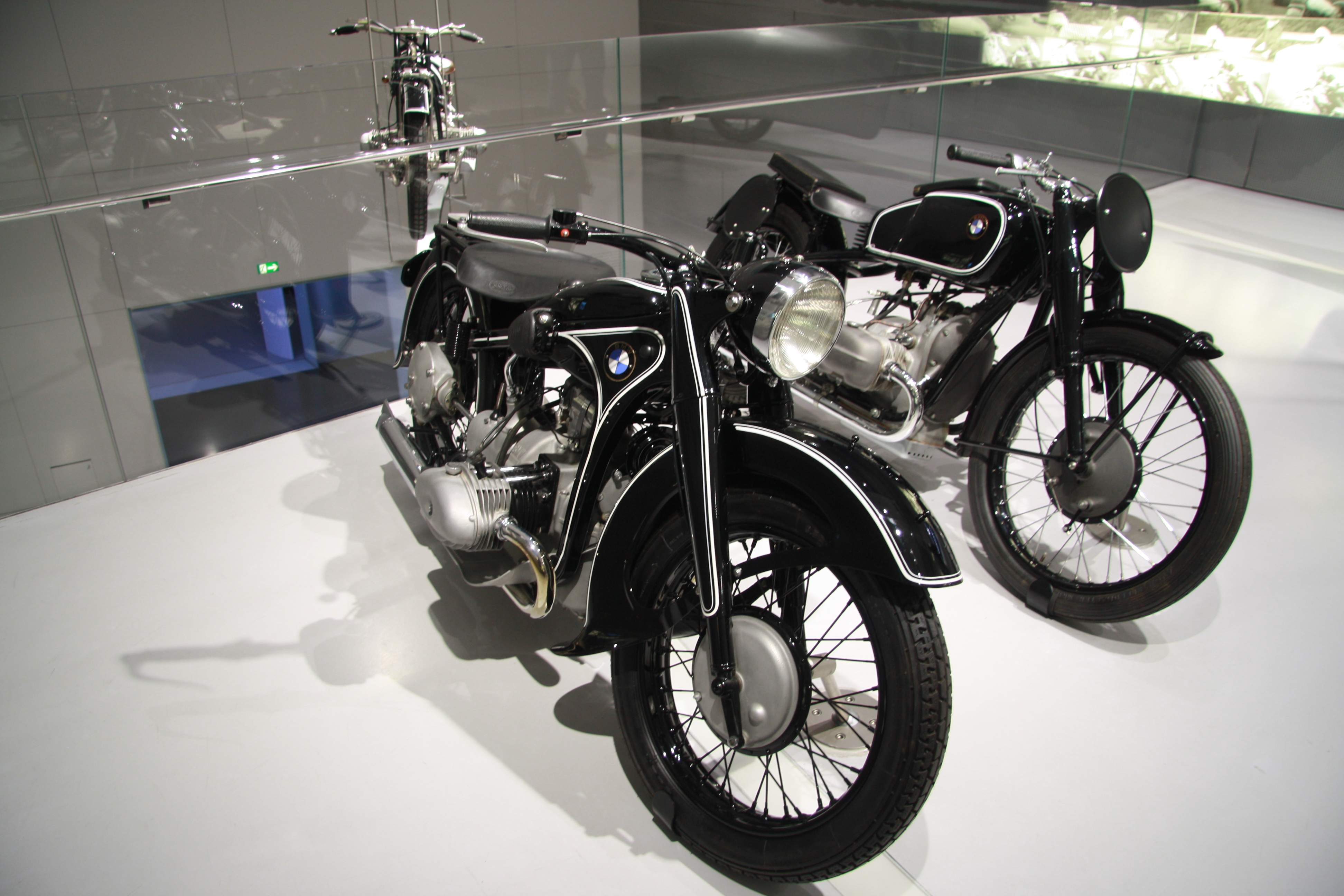 BMW R17 in BMW-Museum in Munich, Bayern.